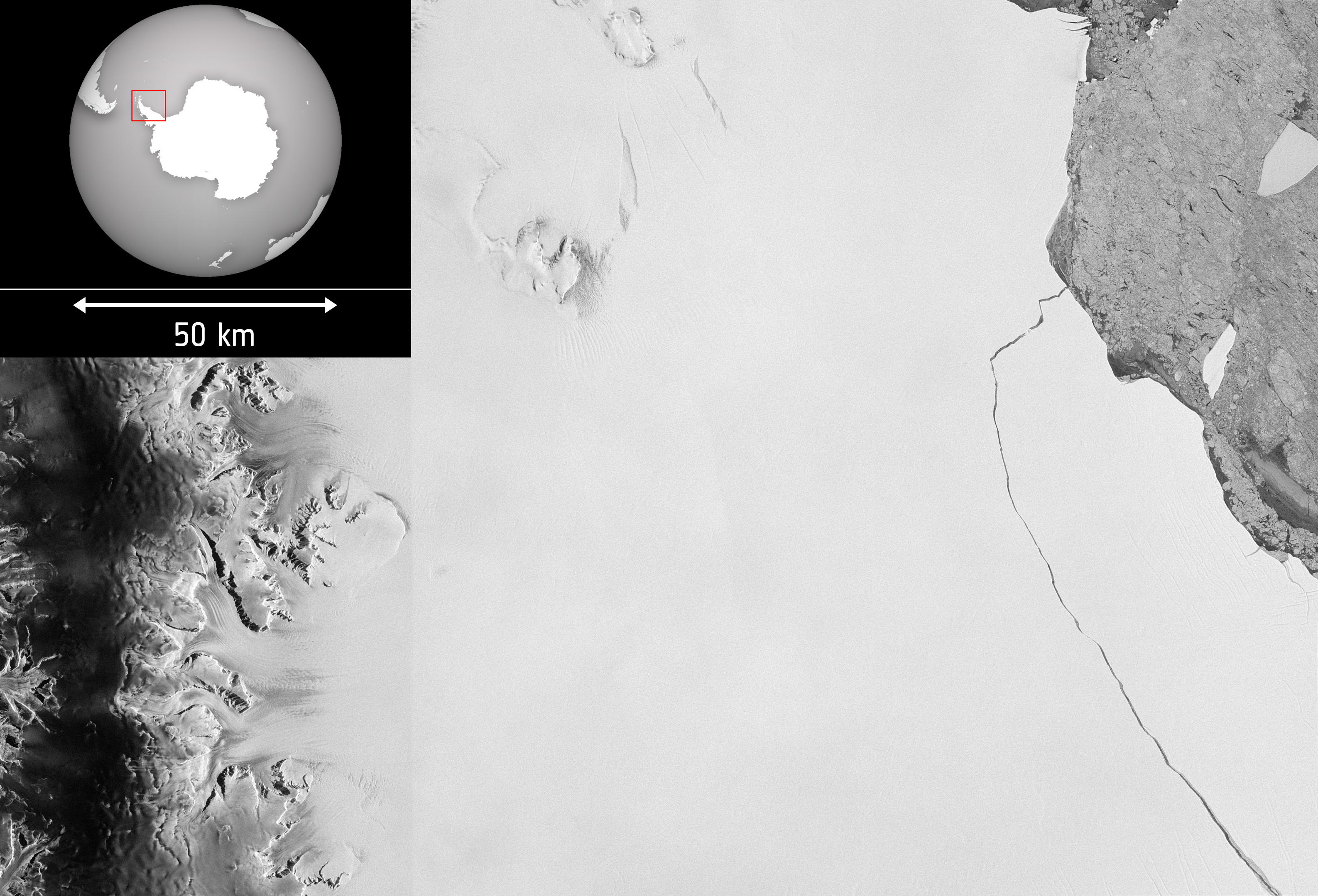 Witnessed by the Copernicus Sentinel-1 mission on 12 July 2017, a lump of ice more than twice the size of Luxembourg has broken off the Larsen-C ice shelf, spawning one of the largest icebergs on record and changing the outline of the Antarctic Peninsula forever. The iceberg weighs more than a million million tonnes and contains almost as much water as Lake Ontario in North America. Since the ice shelf is already floating, this giant iceberg will not affect sea level. However, because ice shelves are connected to the glaciers and ice streams on the mainland and so play an important role in ‘buttressing’ the ice as it creeps seaward, effectively slowing the flow. If large portions of an ice shelf are removed by calving, the inflow of glaciers can speed up and contribute to sea-level rise. About 10% of the Larsen C shelf has now gone. Read full story: Sentinel satellite captures birth of behemoth iceberg